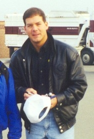 I met Steve as he walked from the driver motor coach area to the garage early in the morning on raceday.